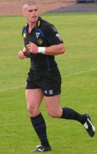 Stuart Reardon